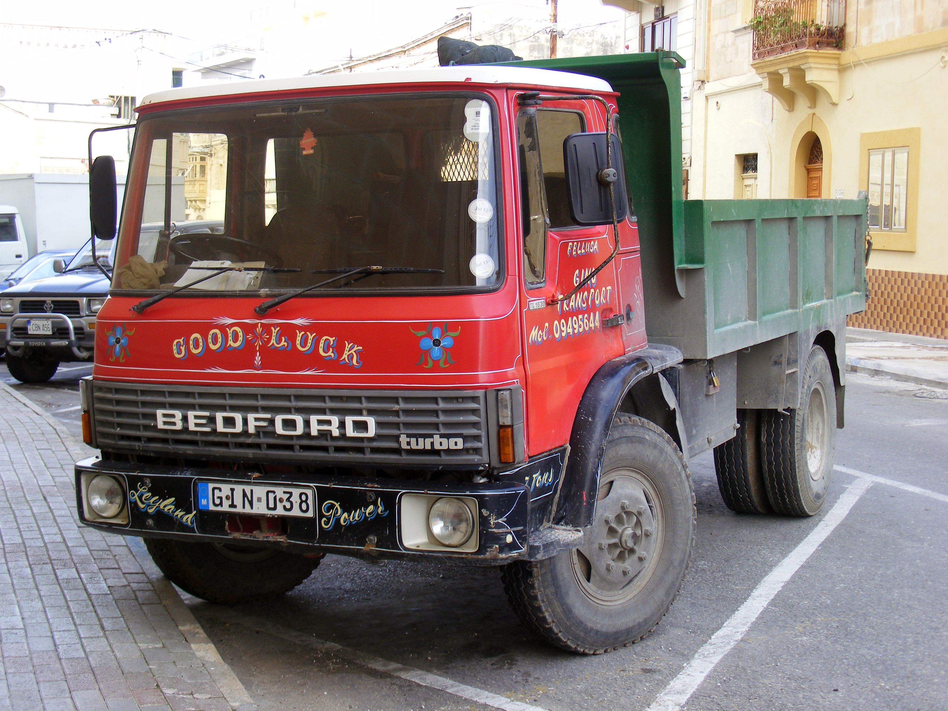 Bedford TL 1630, Malta. Leyland engine?